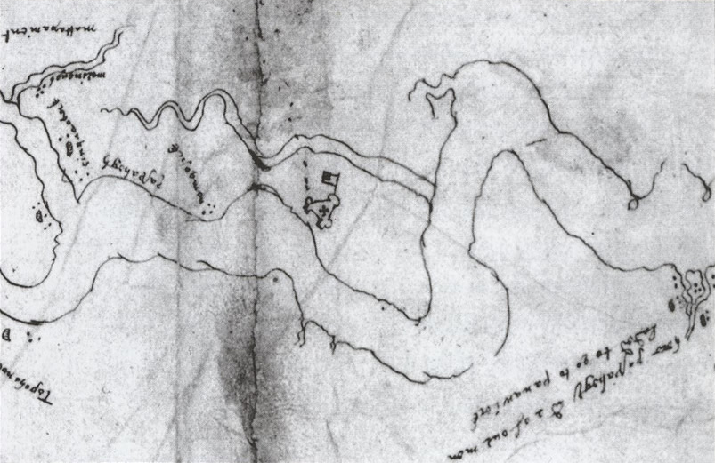 Only known map of the seventeenth century rendering of James Fort. Sent by Pedro de Zúñiga y de la Cueva († October 1631), Spanish ambassador at the court of James I. of England to his king, Philip III of Spain.